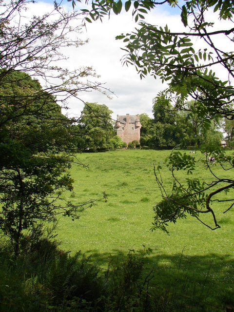 Spedlins Tower Substantial tower house (c.1500) of the Jardines of Applegarth. Extended upwards 1605, restored 1988-9. Sketch by Francis Grose